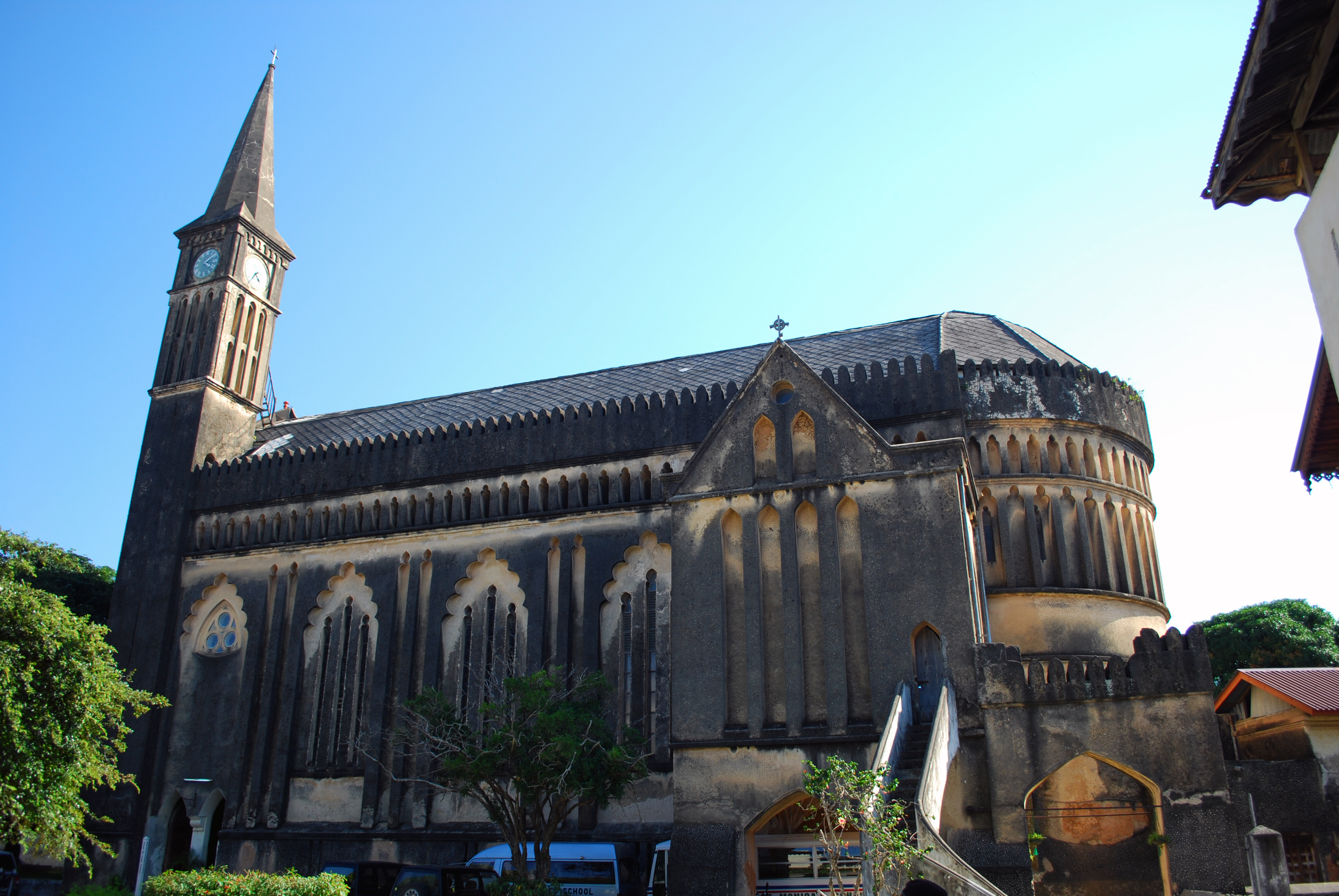 Built on top of the old slave market. Heavy.